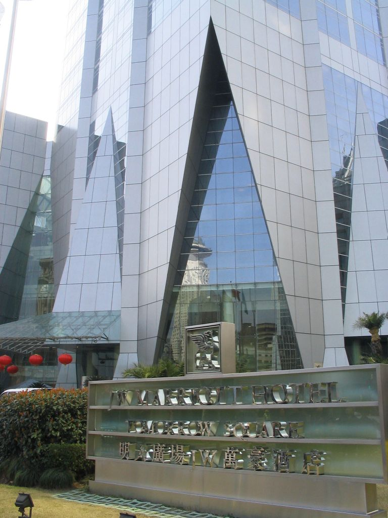 上海明天廣場JW萬豪酒店 JW Marriott Hotel Shanghai Tomorrow Square